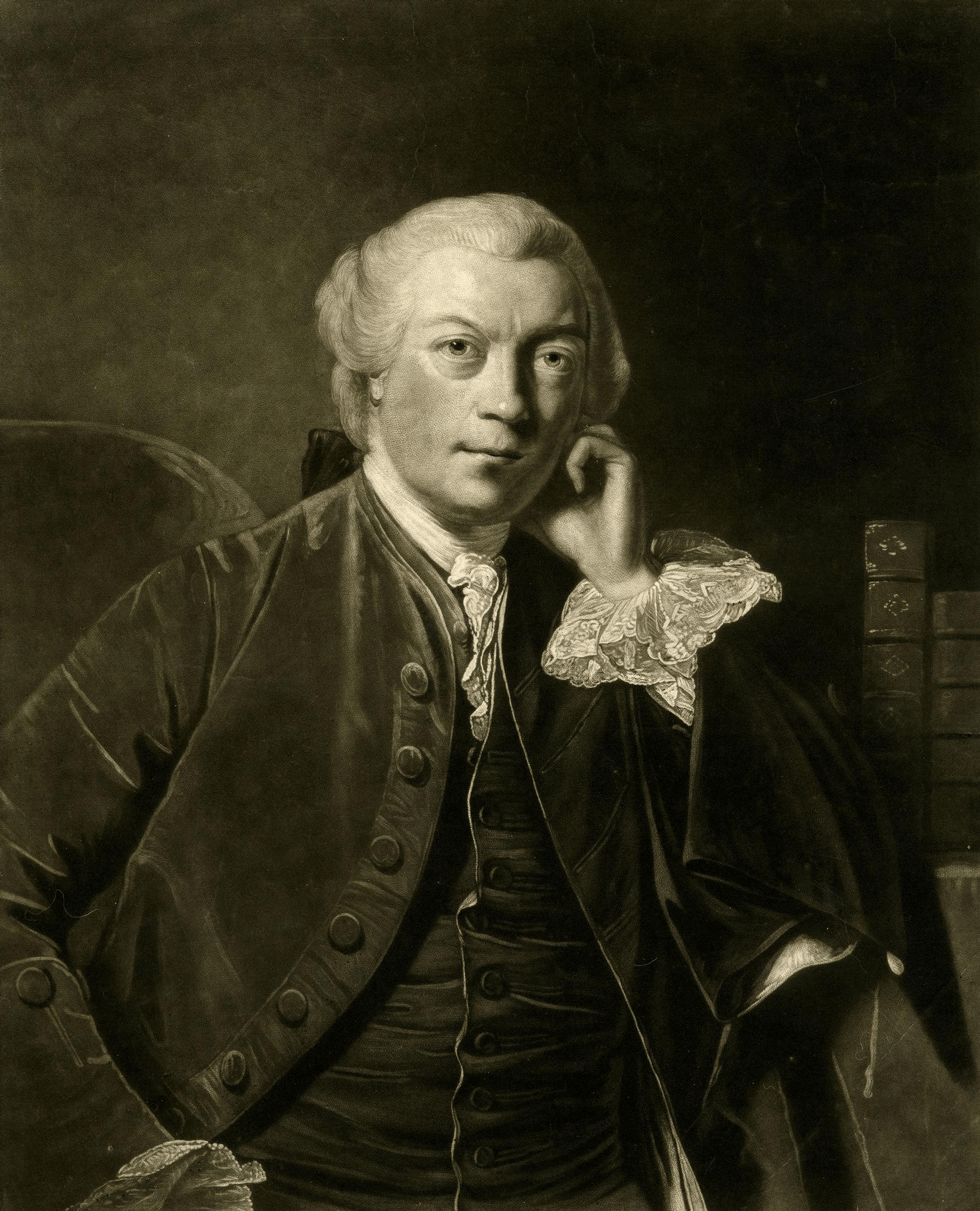 Portrait after Reynolds (Mannings 1002); half-length seated in a chair, left hand to cheek, with books behind; published state 1776; Mezzotint